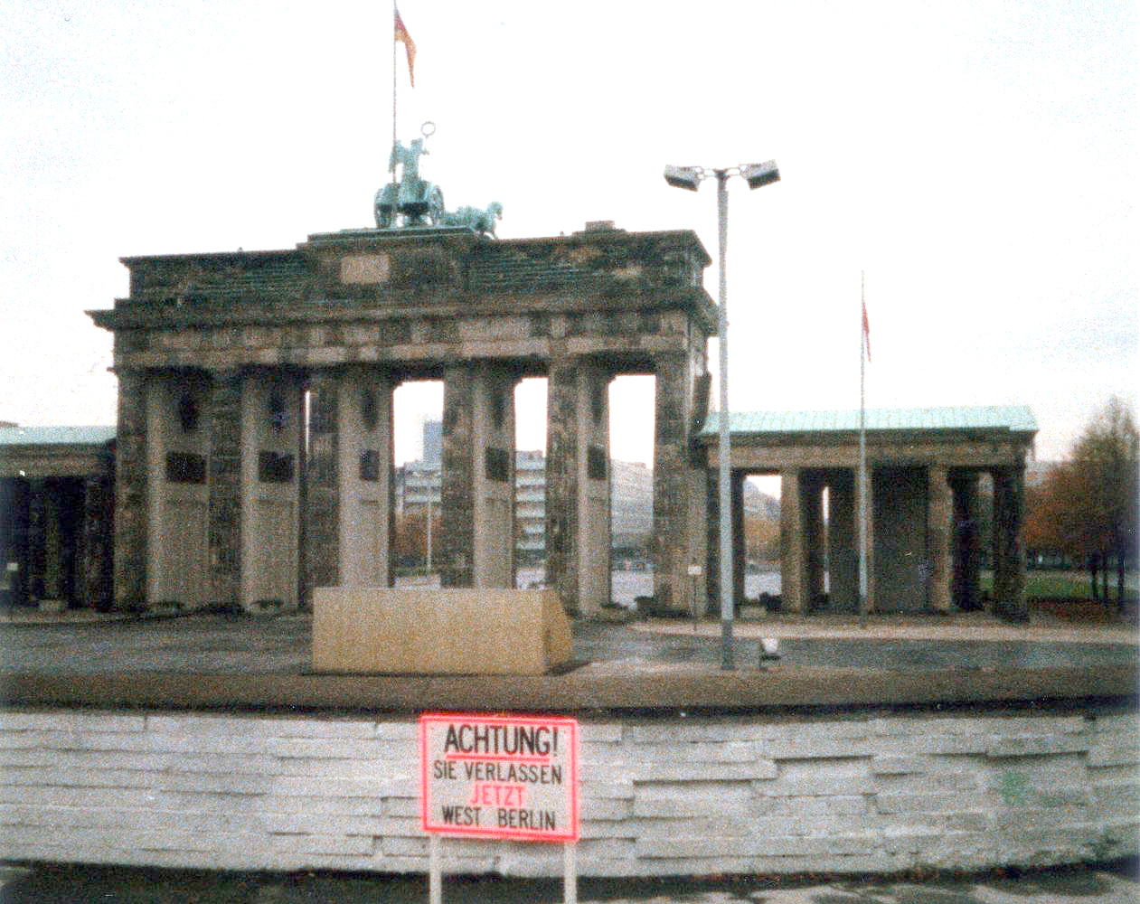 Brandenburger Tor and Berlin Wall - seen from west side from a visitor high seat